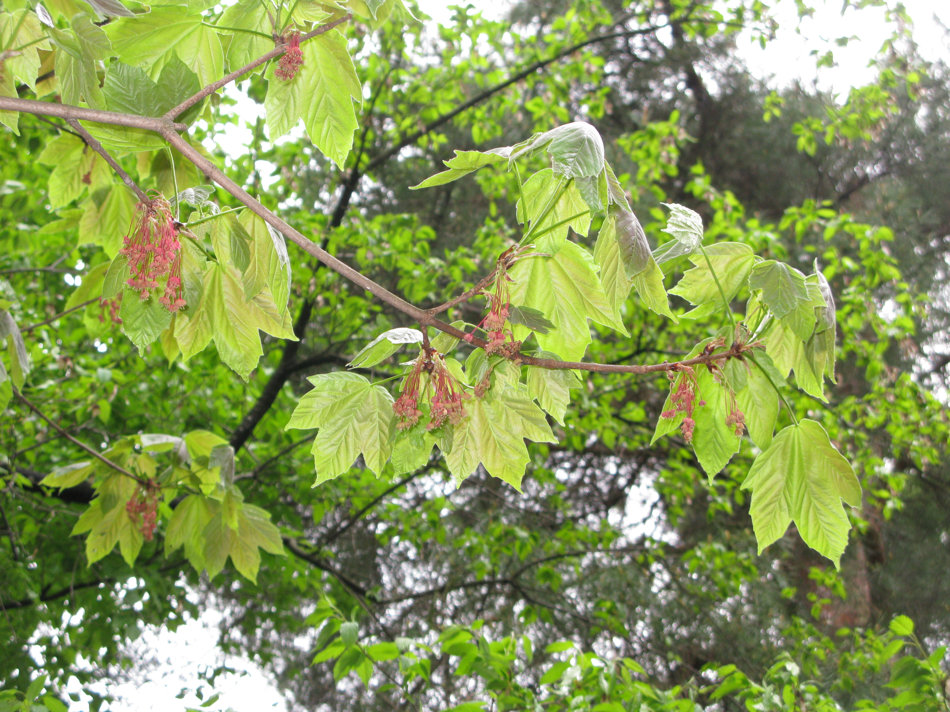 Acer diabolicum, Aizu Matsudaira's Royal Garden, Fukushima pref., Japan